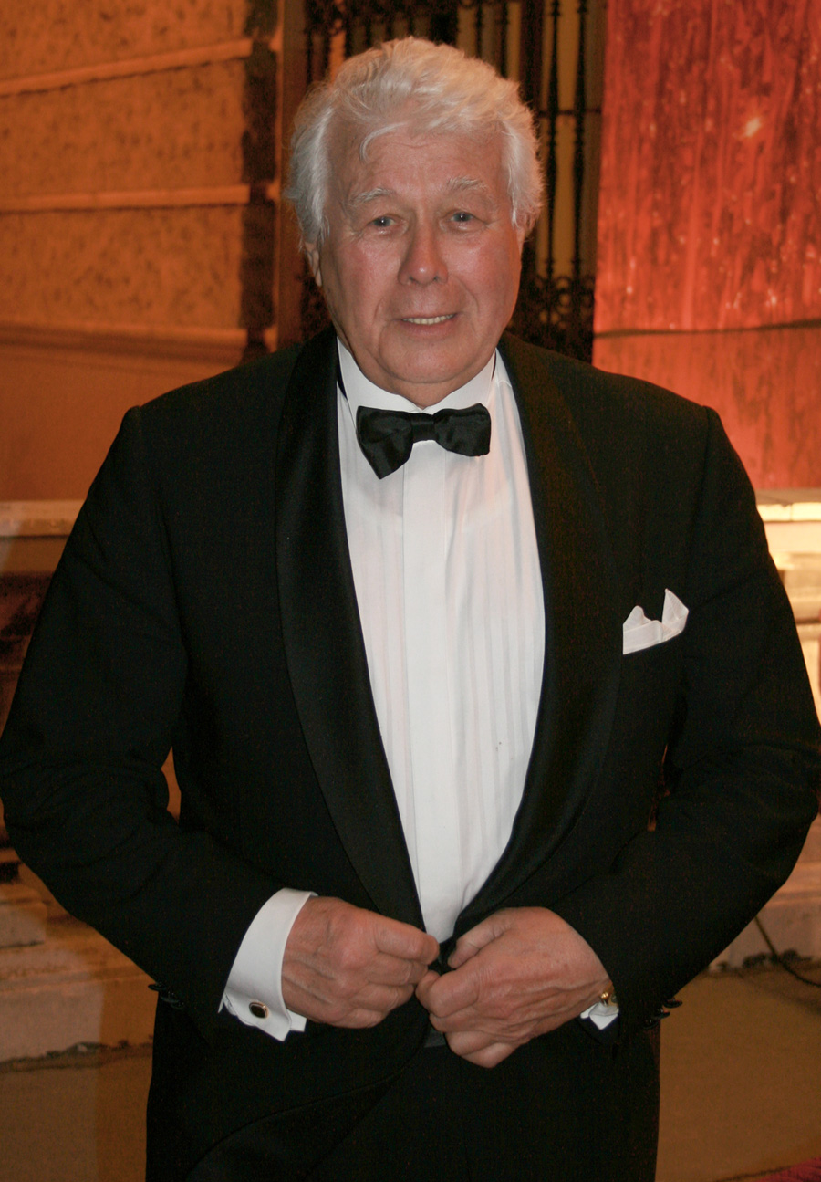 Peter Weck at the Romy TV awards (Hofburg Imperial Palace in Vienna)